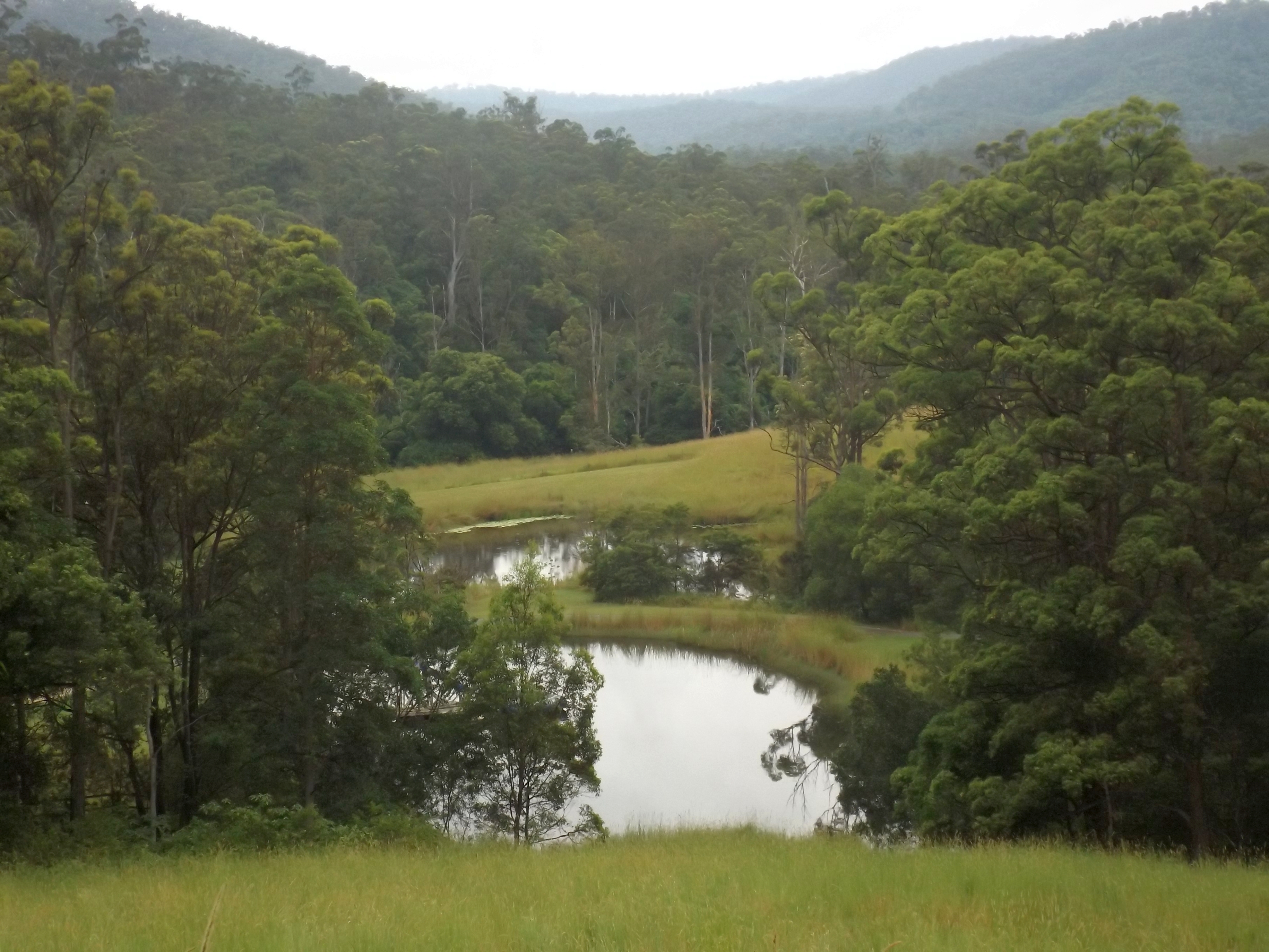 Photo of a dam along Pocket Road at Numinbah Valley, City of Gold Coast, Queensland, Australia. Forest in the background belongs to Springbrook National Park.